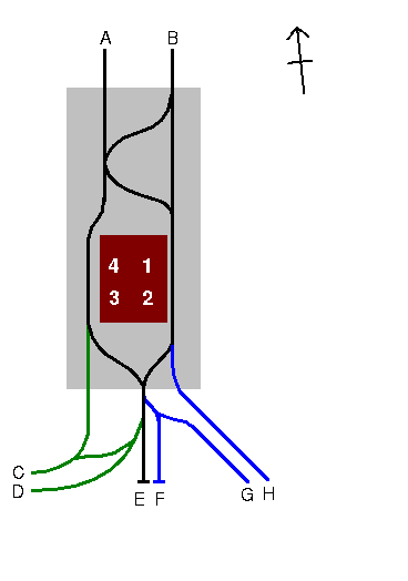 This is a diagram of the track layout at Sunderland station, created by me using based on my own photographs (most, but not all of which, are (or will shortly be) available in Category:Sunderland station at the Wikimedia Commons. My interpretation has been confirmed with the diagram on the Tyne and Wear Transport Group (a Tyne and Wear Metro enthusiast group) MSN Group [1]. Key Black lines: Track shared by Metro and mainline services, electrified at 1500v DC overhead. Green lines: Track used by Metro services only, electrified at 1500v DC overhead. Blue lines: Track used by mainline services only, not electrified. Grey area: covered station shed. Maroon area: Platforms. Platform 1: Southbound mainline services. Platform 2: Southbound Metro services. Platform 3: Northbound Metro services. Platform 4: Northbound mainline services. A: Towards Newcastle B: From Newcastle C: From South Hylton D: To South Hylton E: Electrified siding F: Non-electrified siding G: From Middlesbrough H: Towards Middlesbrough